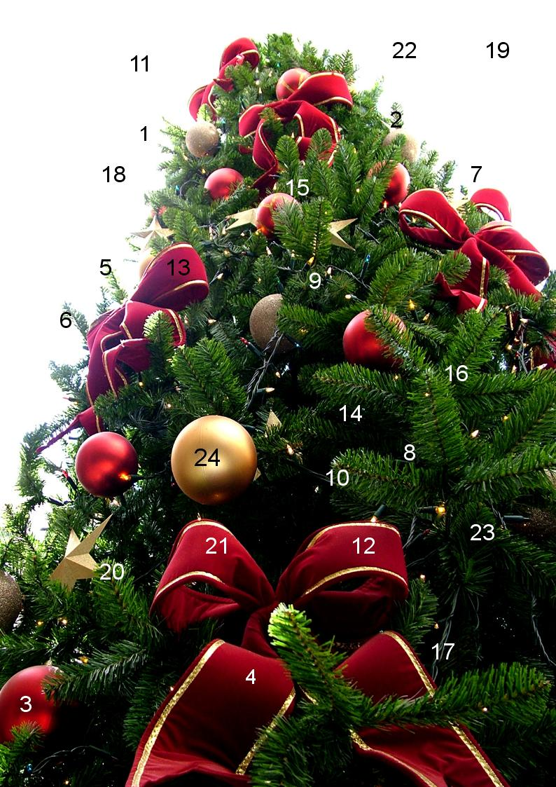 Christmas tree